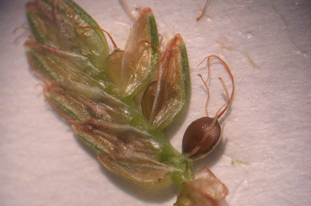 Cyperus sanguinolentus(Cyperaceae)